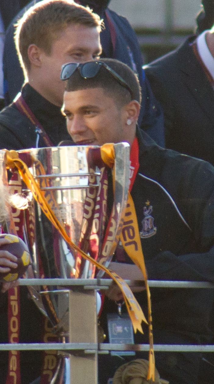 Nahki Wells celebrating Bradford City's 2013 2013 Football League Cup Final appearance